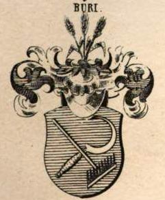 Otto Titan von Hefner: J. Siebmachers ..Der Adel des Kurfürstenthums, ....Hessen. 1857, [Seite 5, Tafel 4